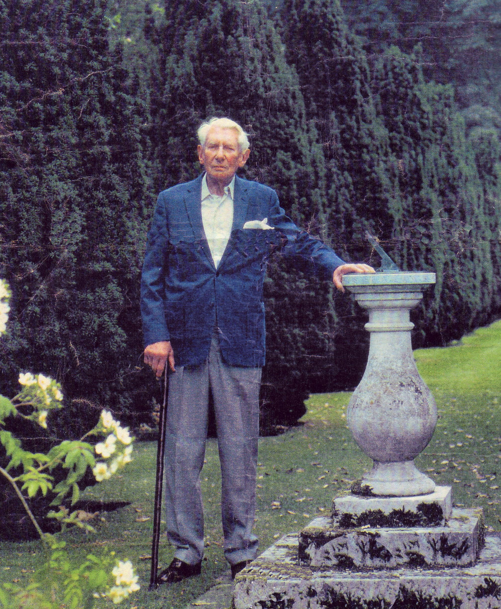 Ralph Dutton, 8th Baron Sherborne (1898-1985) From the book, "Lord Sherborne", as provided by Byron Hadley, custodian of the 7th Baron Sherborne's family records.